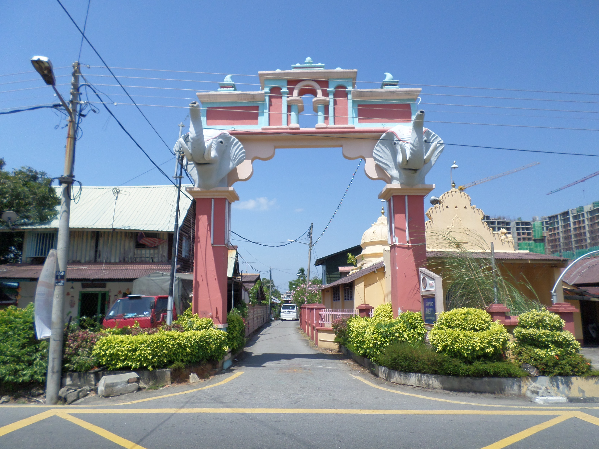 Chitty Village, Malacca Town, Malacca, MalaysiaBahasa Melayu: Kampung Chetti, Bandarya Melaka, Melaka, Malaysia